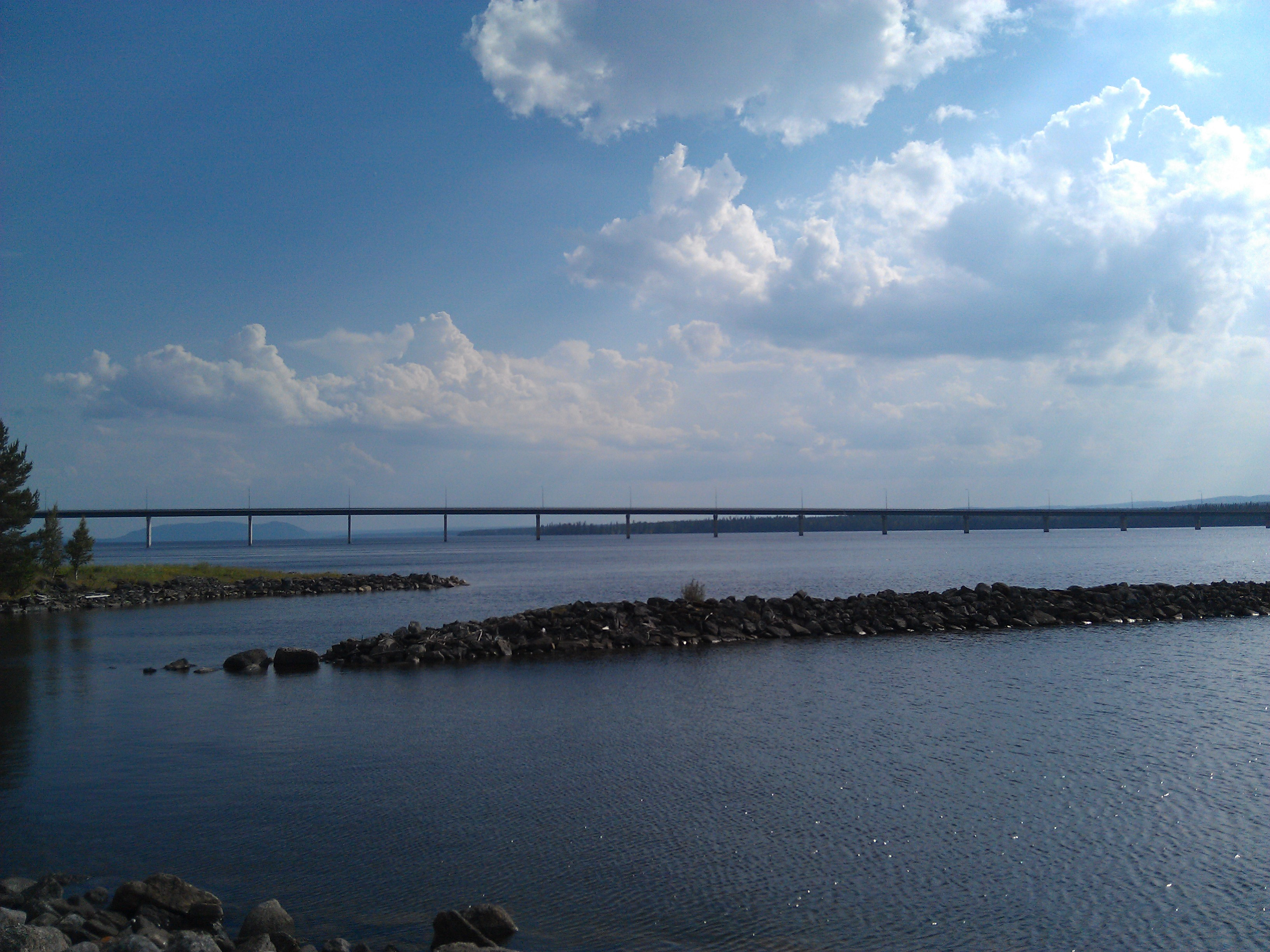 Sannsunds Bridge, Jämtland County, Sweden